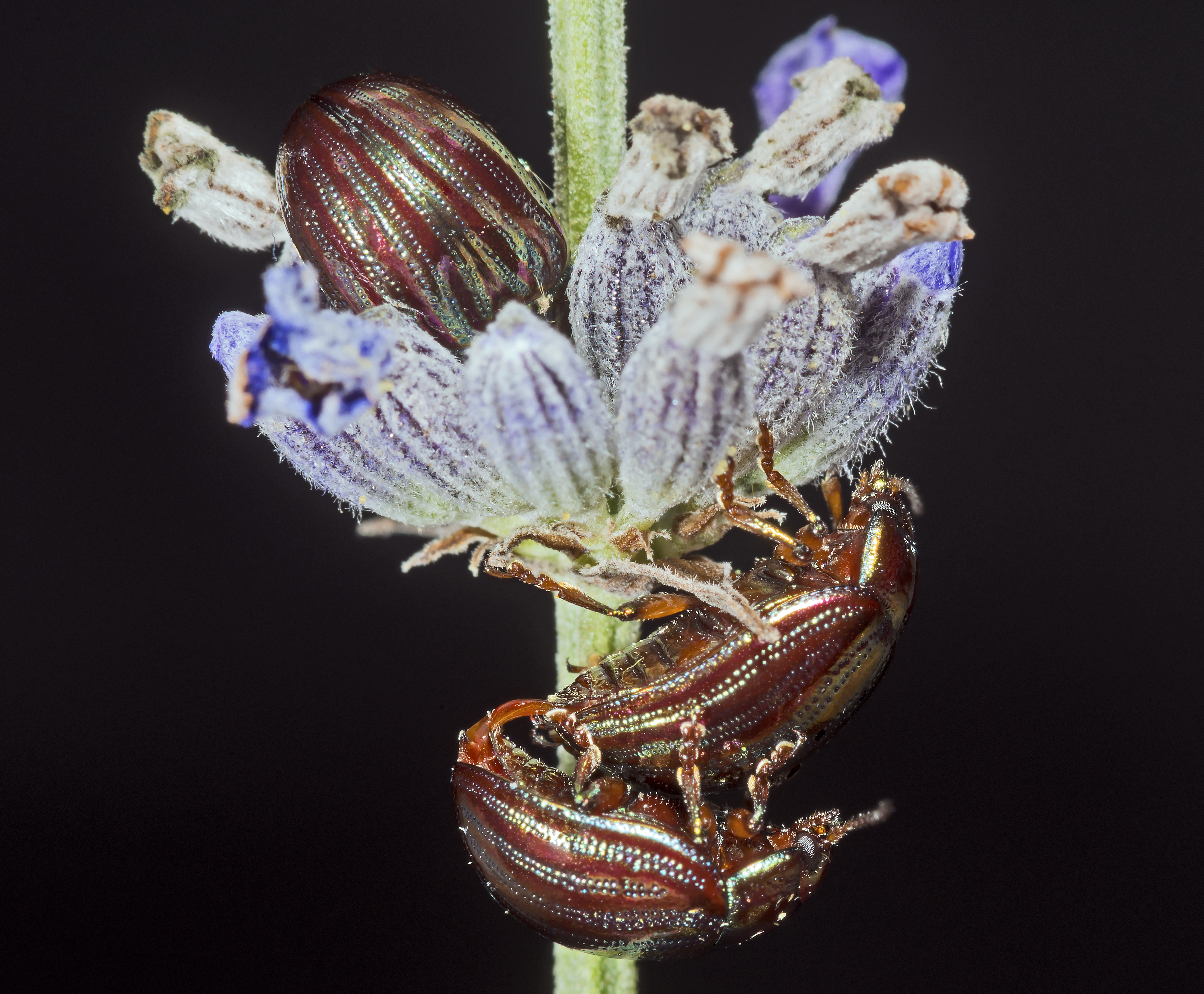 Rosemary Beetle. Mating on a lavender.